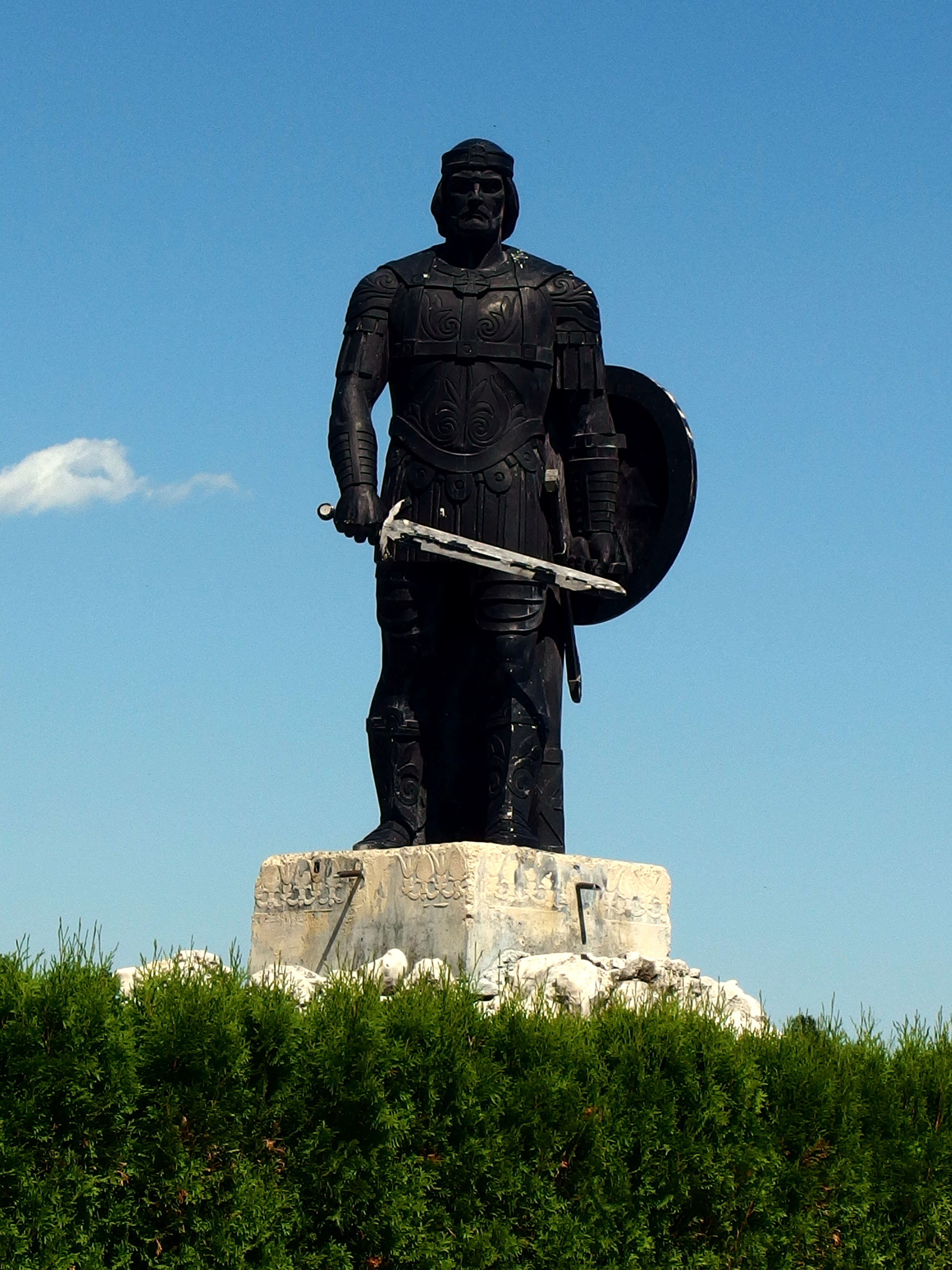 2014-06-23 between Arbanasi and Veliko Tarnovo.